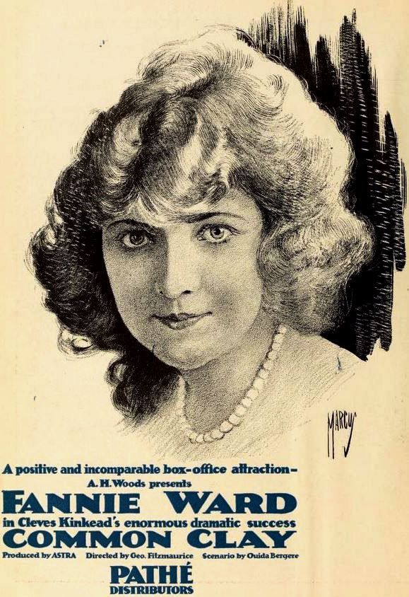 Ad for the American film Common Clay (1919) with Fannie Ward, from an insert after page 1158 of the March 1, 1919 Moving Picture World.